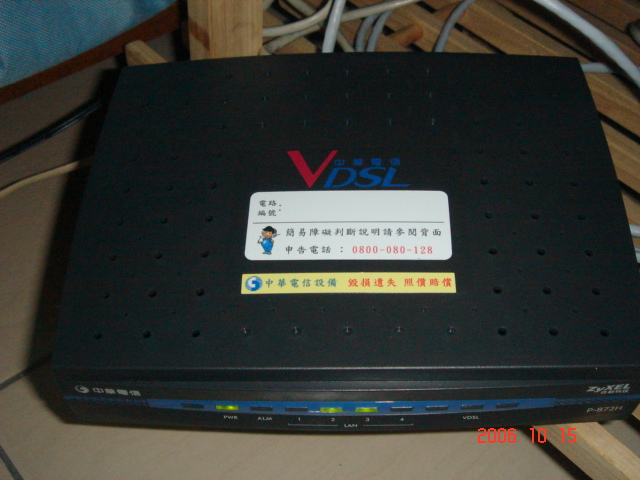 The VDSL modem ZyXEL P-872H of Chunghwa Telecom. This photo is be shot by myself. Everyone is permitted to copy and distribute verbatim copies of this license document, but changing it is not allowed.